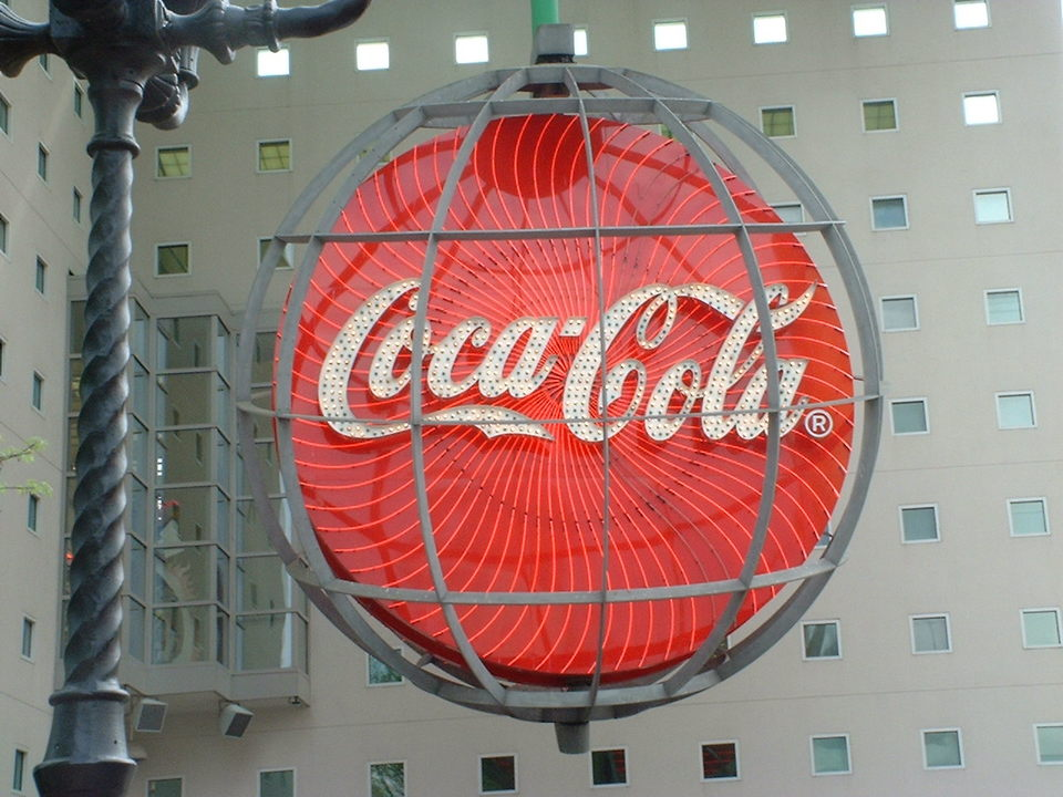 The World of Coca-Cola rotating logo